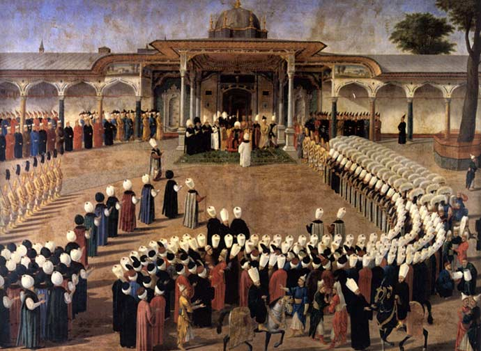 Sultan Selim III holding an audience in front of the Gate of Felicity. Courtiers are assembled in a strict protocol. Oil on canvas. Topkapı Sarayı Müzesi, Istanbul (Inv. 17/163)